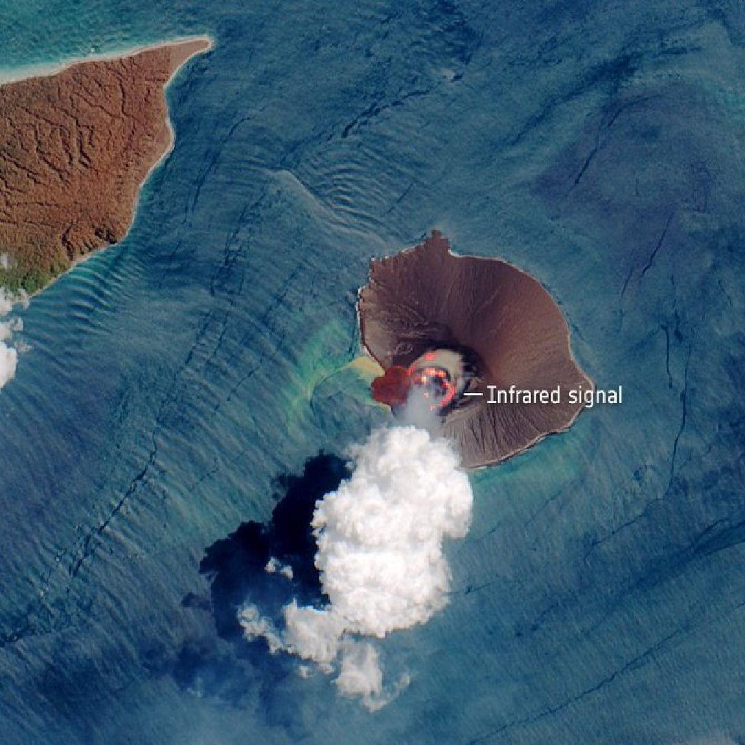 Anak Krakatoa as seen from space by the ESA's Copernicus Sentinel-2 satellite on 17th April 2020. "Thanks to the satellite's short wave infrared channels we can easily spot the ongoing activity in the crater, visible in bright red." Taken from the @esa_earth Instagram account. Credits there given as: "contains modified Copernicus Sentinel data (2020), processed by ESA, CC BY-SA 3.0 IGO"